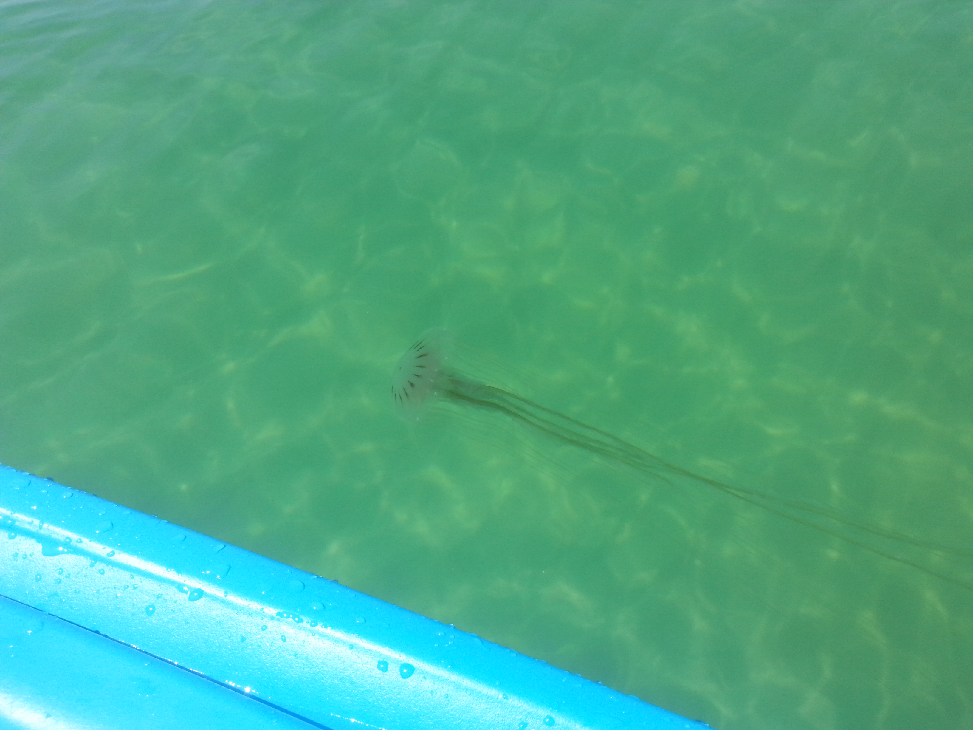 Photo of a common jellyfish I took from a kayak, showing it swimming, taken about 200 yards from shore and about 10 foot depth